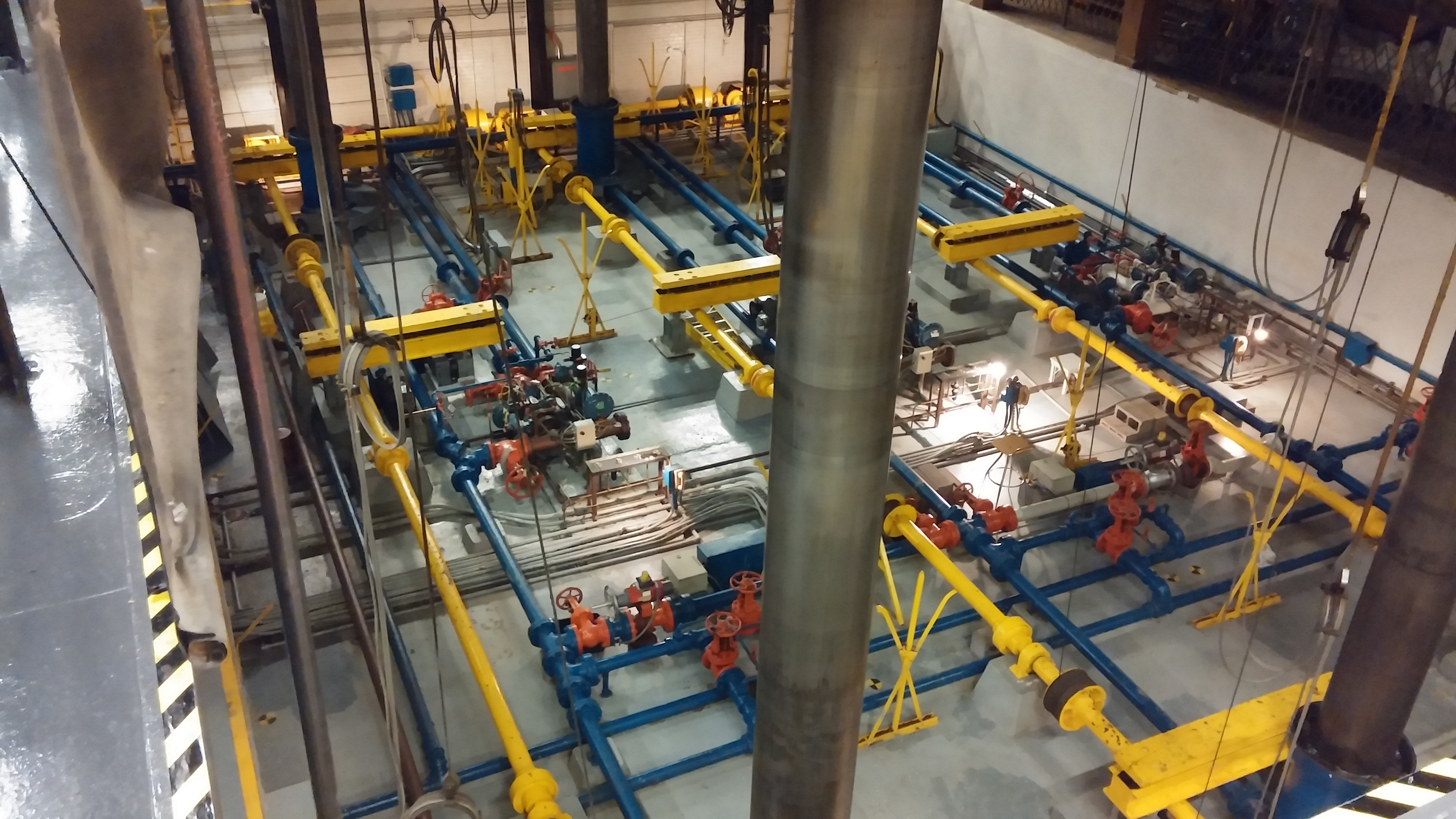 The hydraulics needed for the stage at Radio City Music Hall. Accompanying photo (attached mainly for background info only) shows the plaque proclaiming it a Historic Mechanical Engineering Landmark.